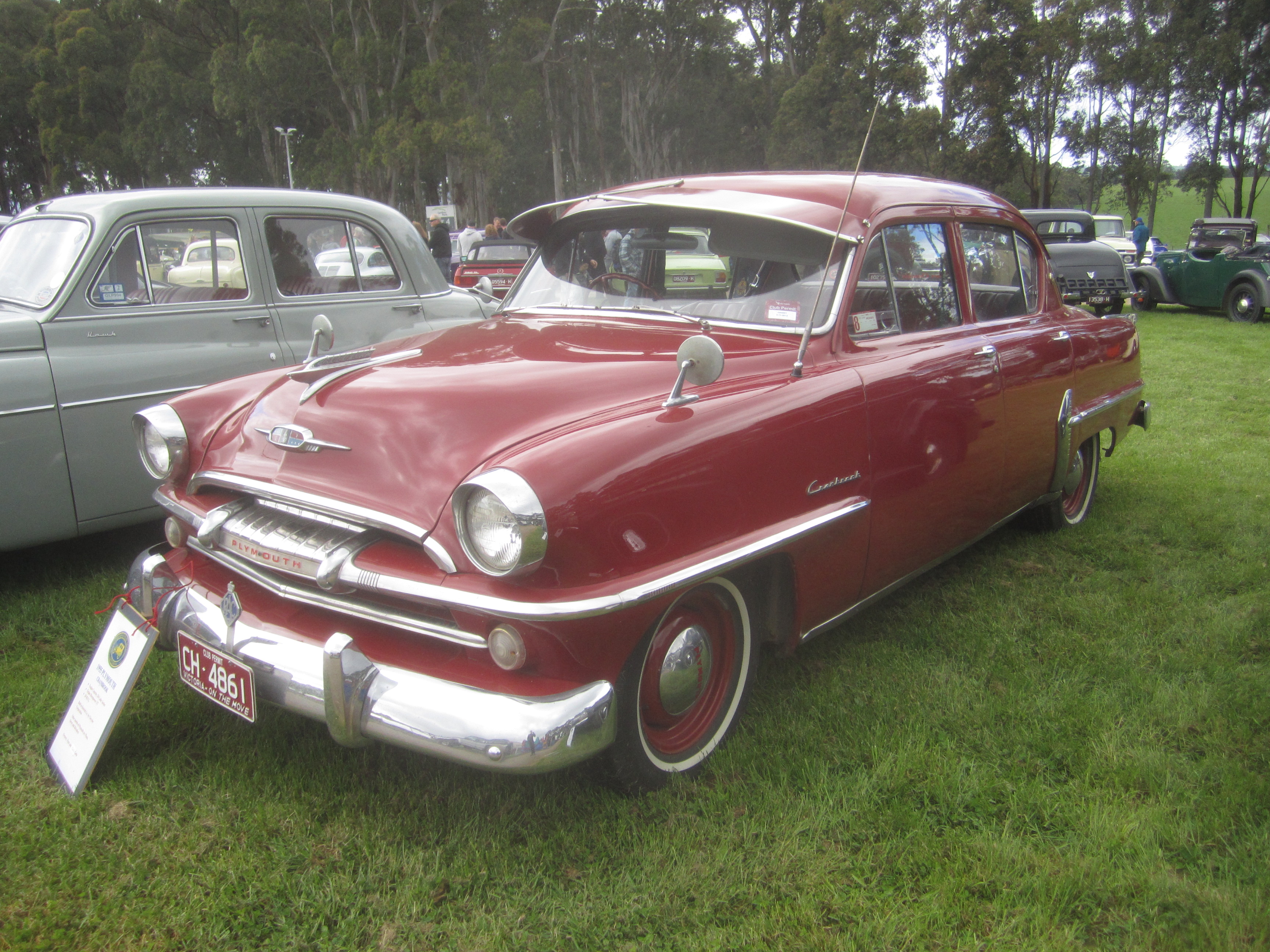 For 1953, the boxy shape was changed for straighter lines, with sleeker and more modern styling. The windshield went to a modern one-piece unit; and the door handles pulled out instead of twisting. The glove box was moved to the center for easier access by the driver. Generally the Cranbrook name ended in 1953 and was replaced by the Belvedere but this Cranbrook has the 1954 styling, maybe a car unique to Australia. Similar to the 1953 car, in 1954 the central bar of the grille still continued around into the fenders but got more of a chrome feature in the centre Engine; 218 cu in 6 cyl